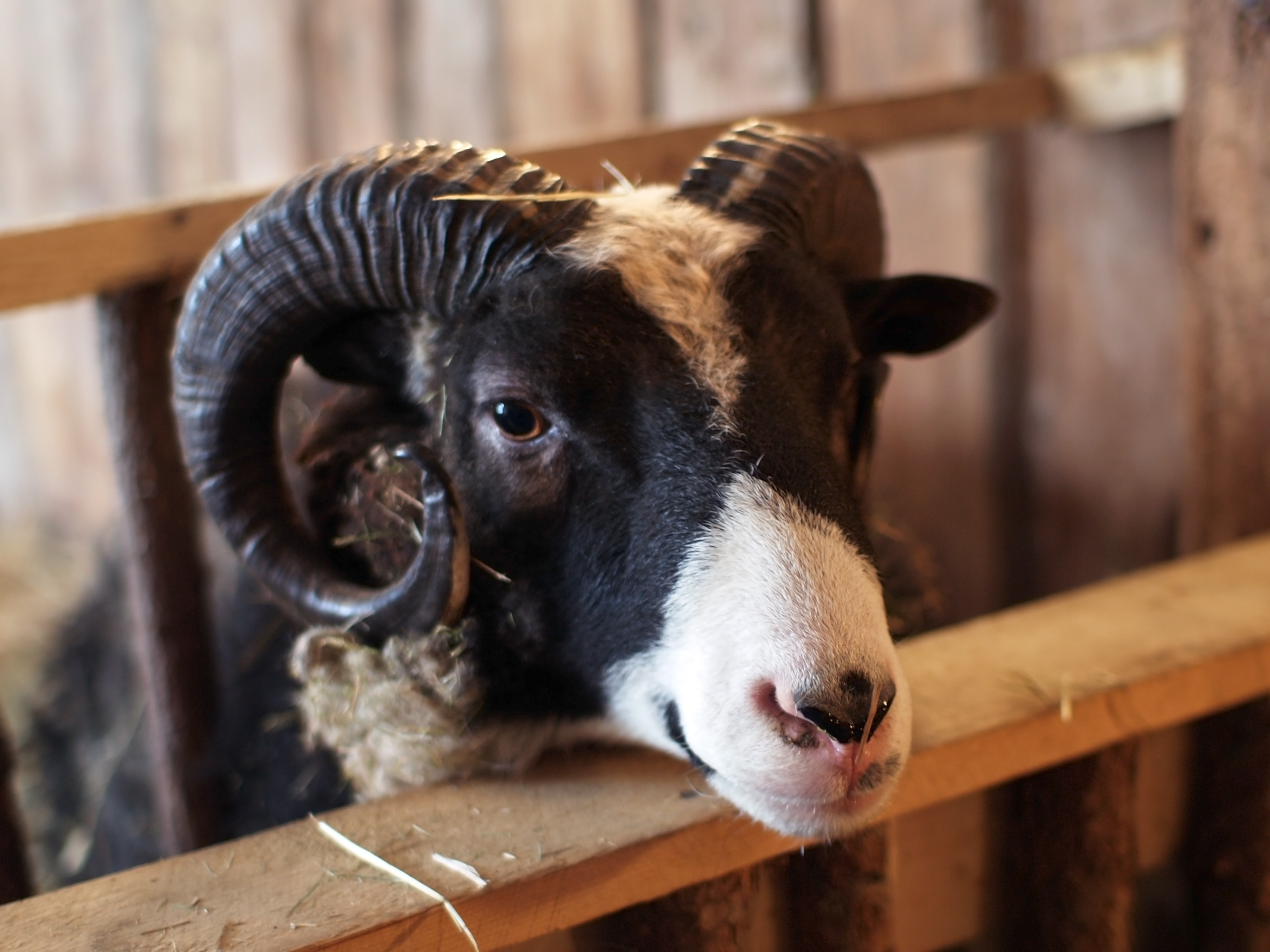 A Finnsheep ram in Finland.